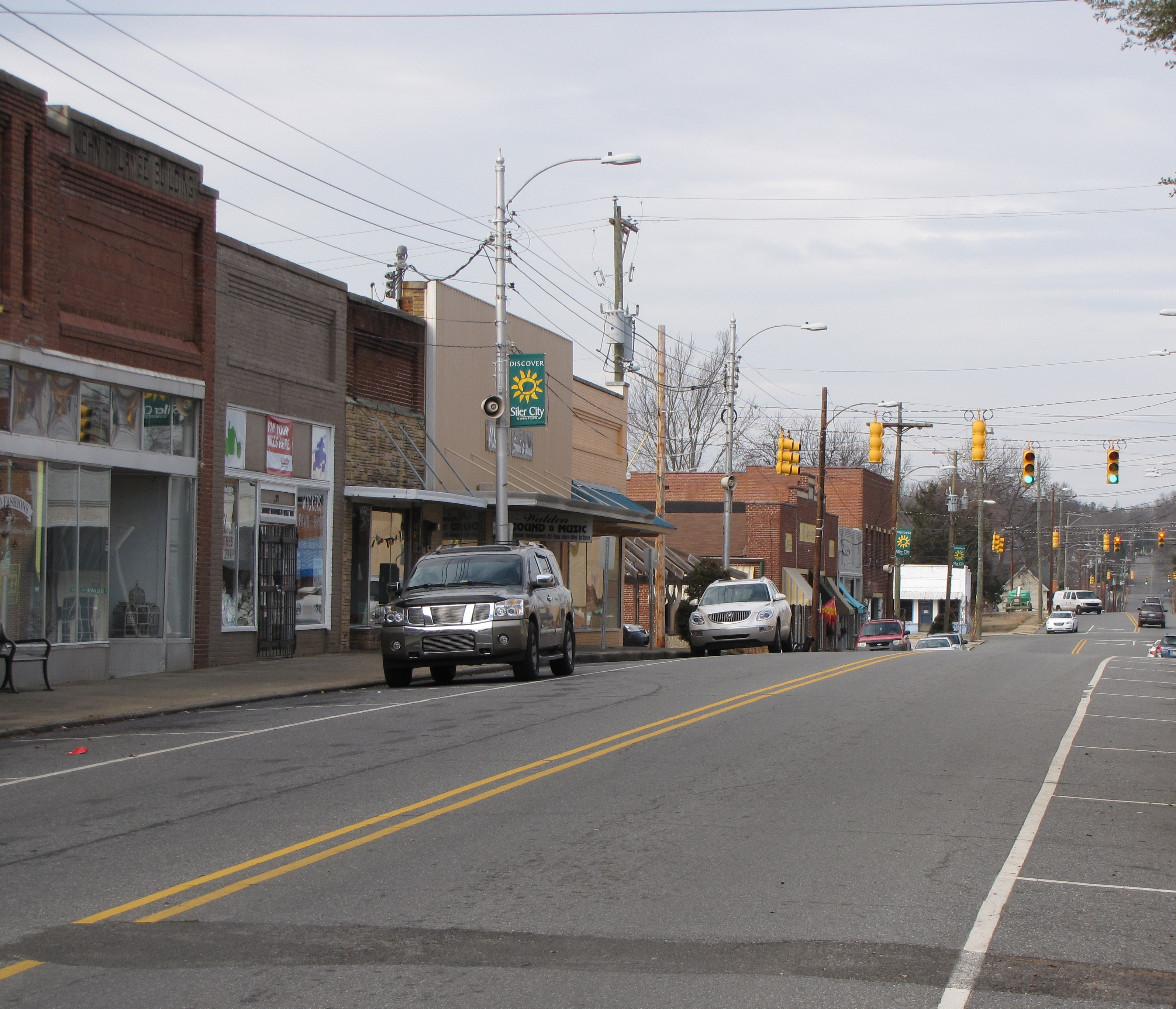 A view up North Chatham Avenue in Siler City, Chatham County, North Carolina on Old U.S. Route 421.